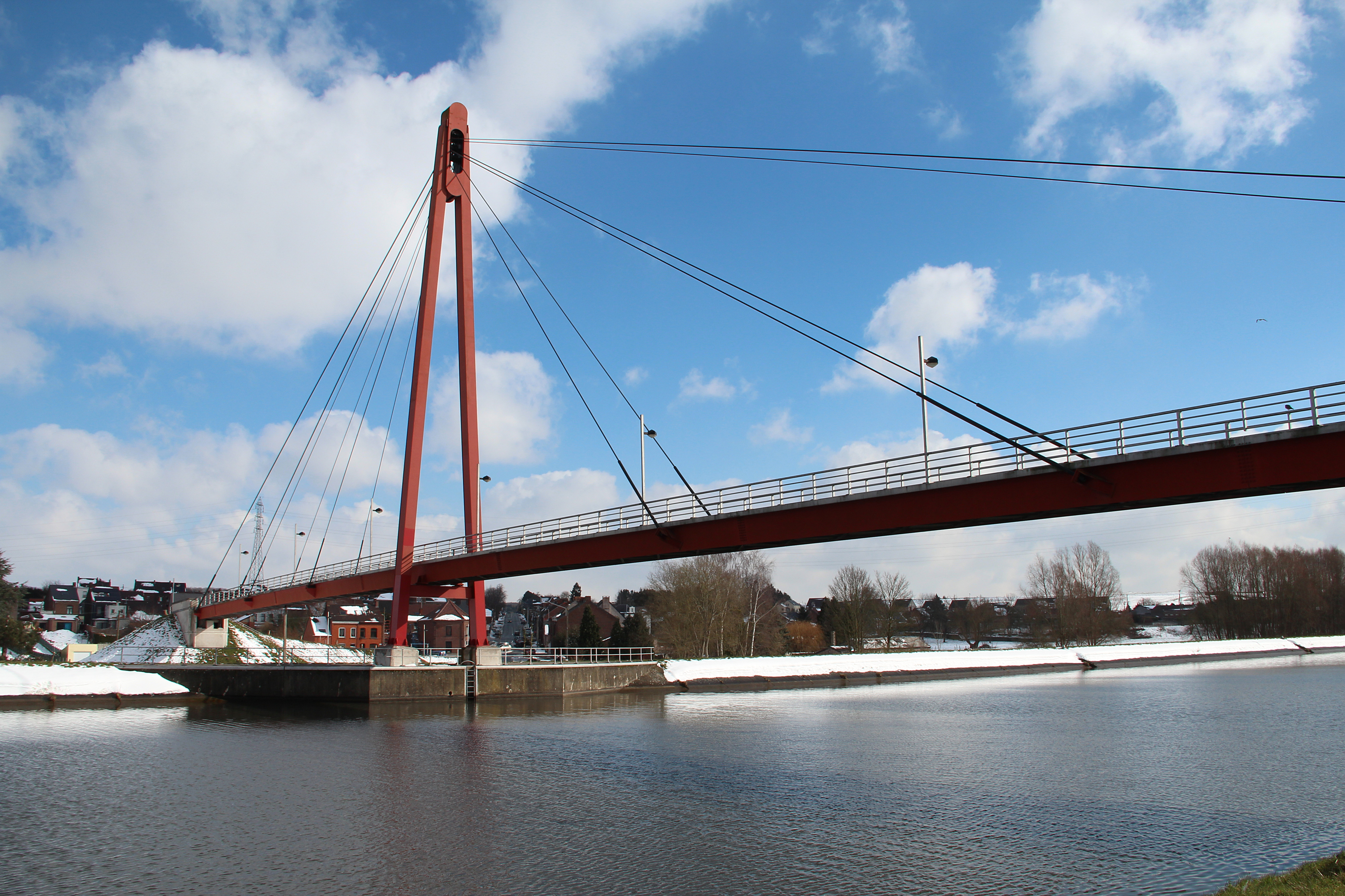 Ville-sur-Haine (Belgium), stayed bridge on the Canal du Centre.